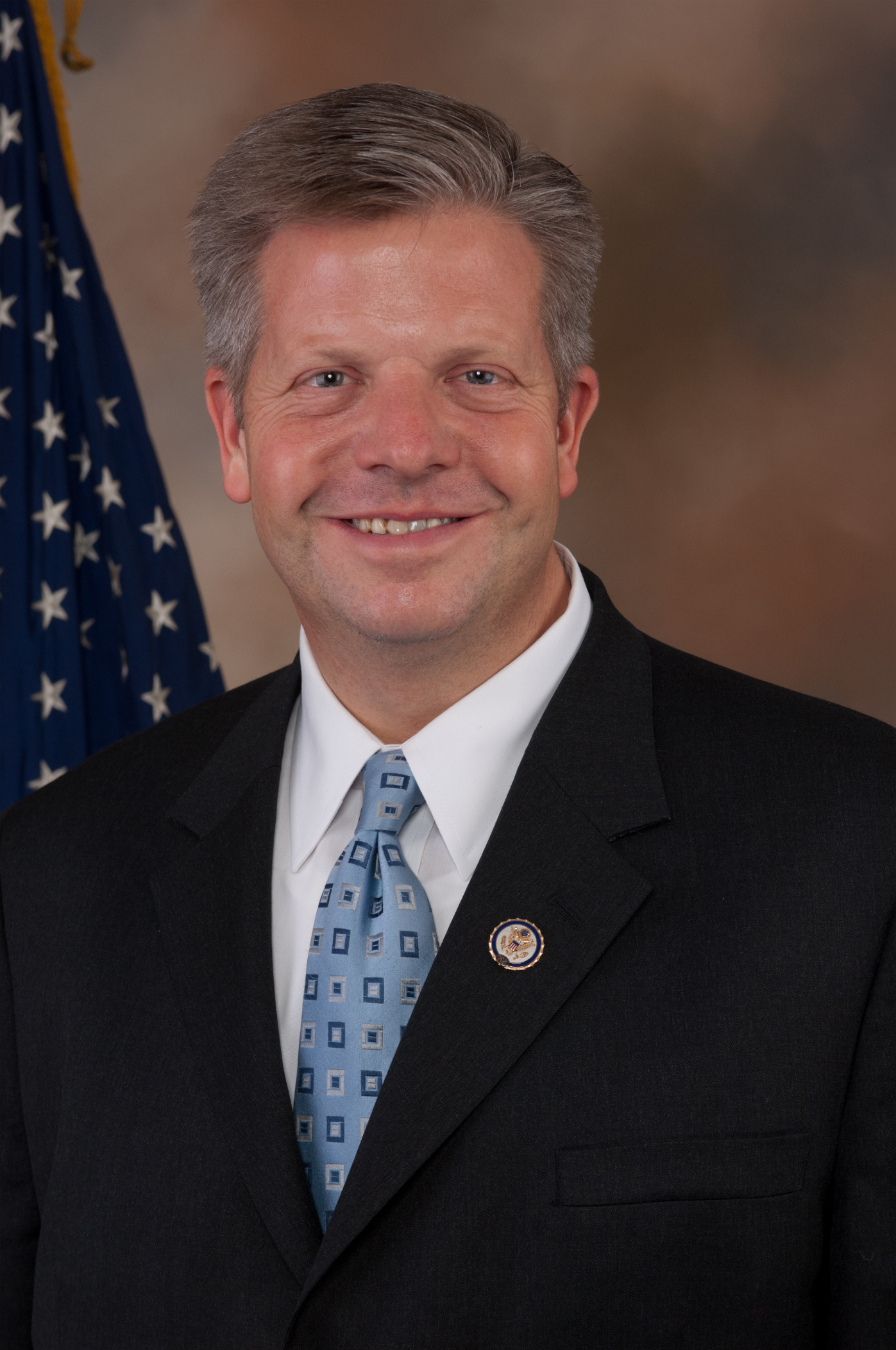 Official portrait of US Rep. Randy Hultgren